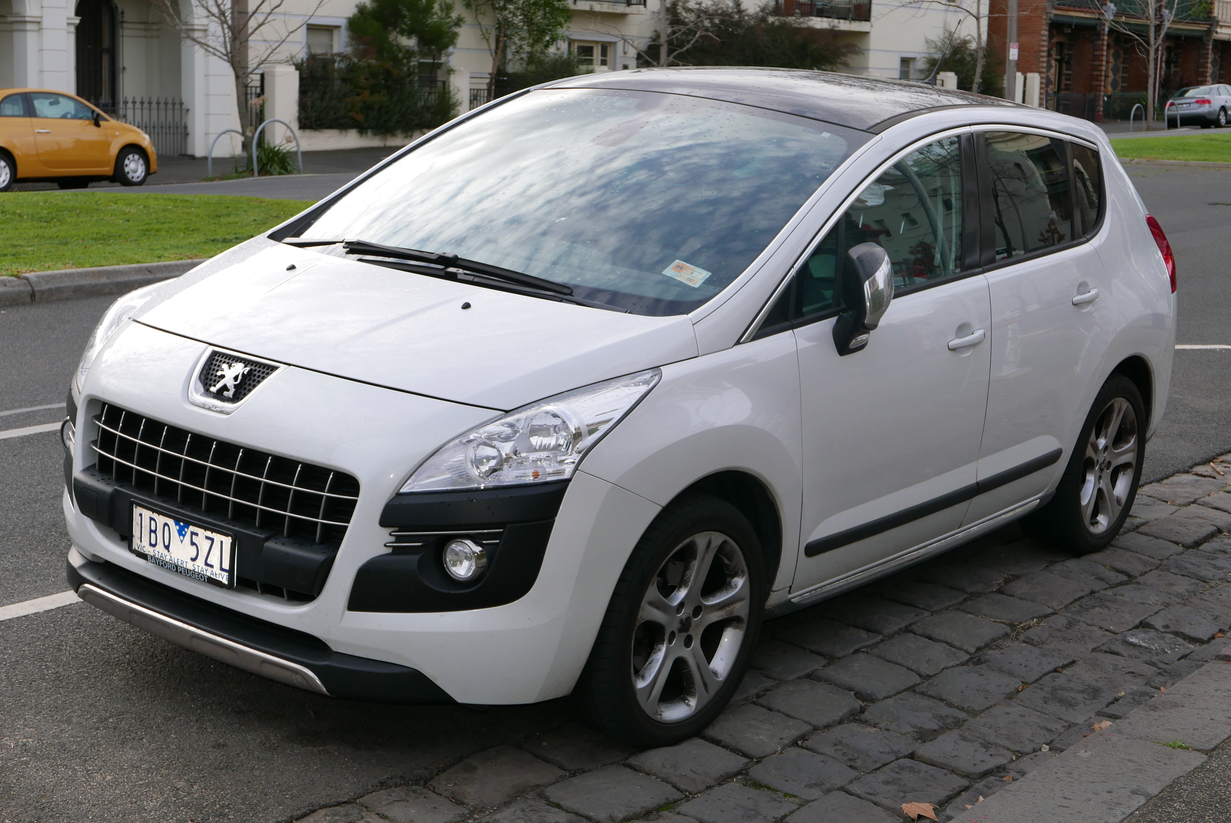 2014 Peugeot 3008 (T8 MY13) Allure HDi wagon. Photographed in Parkville, Victoria, Australia. Vehicle registration enquiry resultsJurisdictionVictoriaRegistration1BQ5ZLChassis codeVF30URHHADS094287Engine code10DYZD4046914Compliance date2014-03Year of manufacture2014